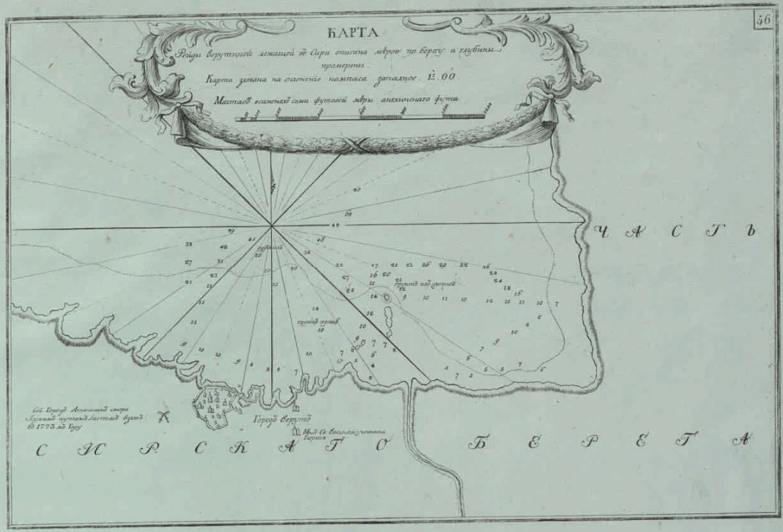 Map of Beirut's coast from the Atlas of the Archipelago.[1]